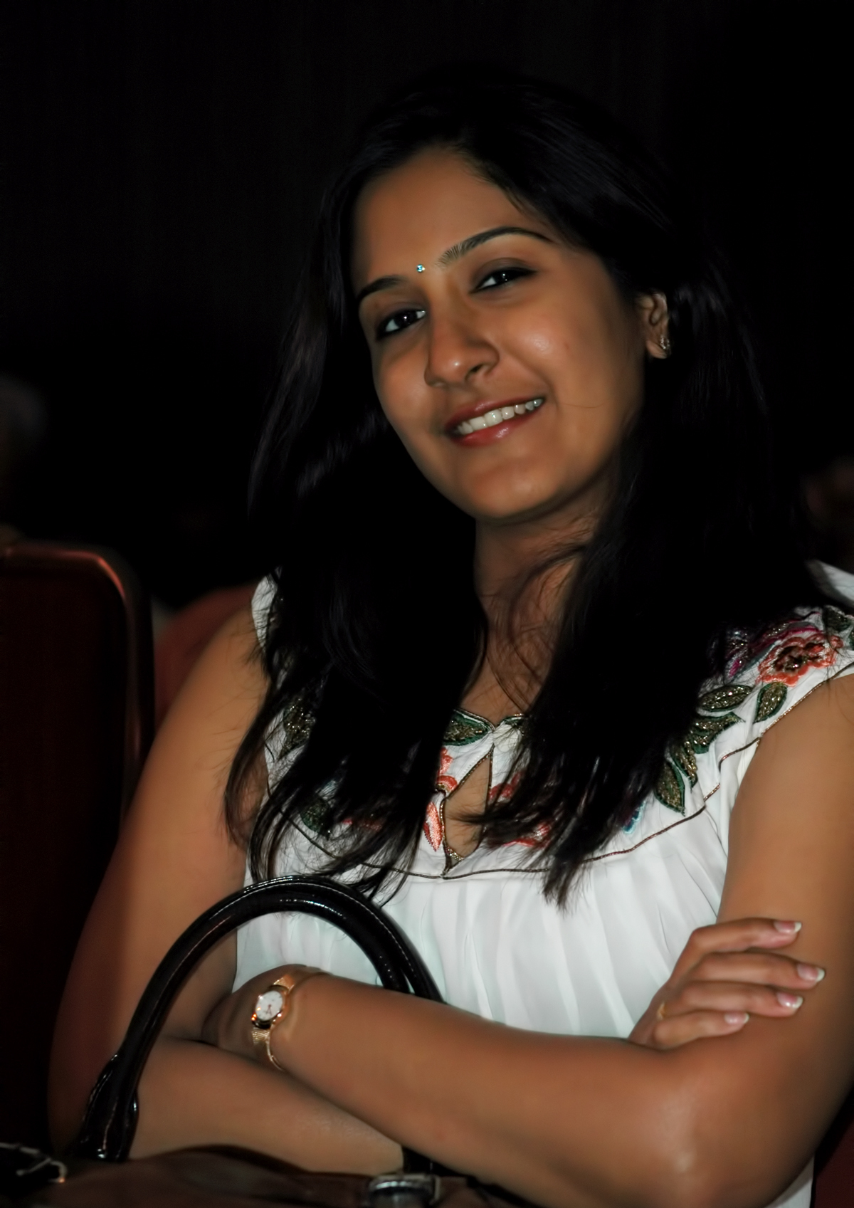 Swetha Mohan, famous female playback singer in Malayalam